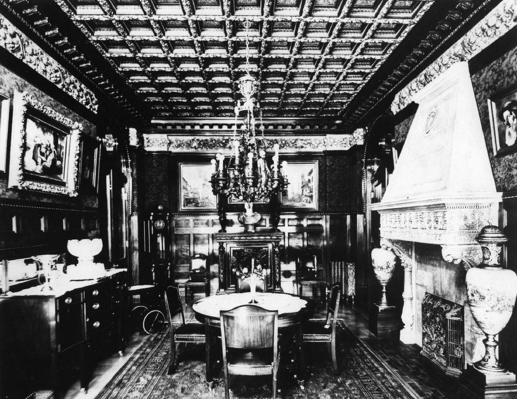 Dinning room (circa 1930), Oscar Dufresne House, 4040 Sherbrooke Street East, Montreal, Quebec, Canada.